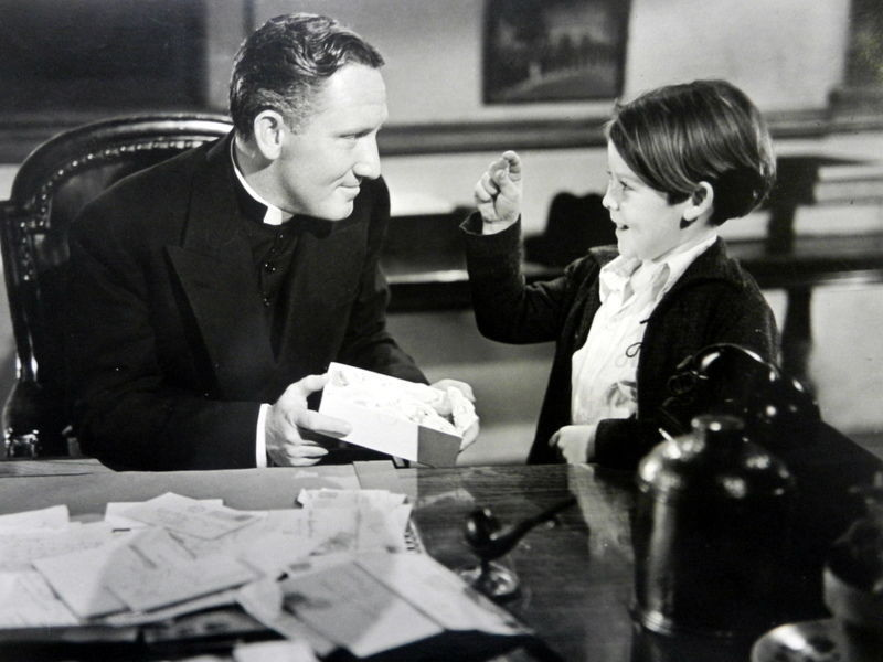 Publicity photo for the American film Boys Town (1938) with Spencer Tracy and Bobs Watson.